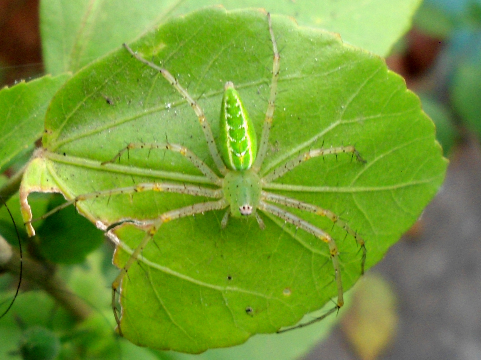 (Peucetia viridans) Green lynx spider spotted at Madhurawada, Visakhapatnam